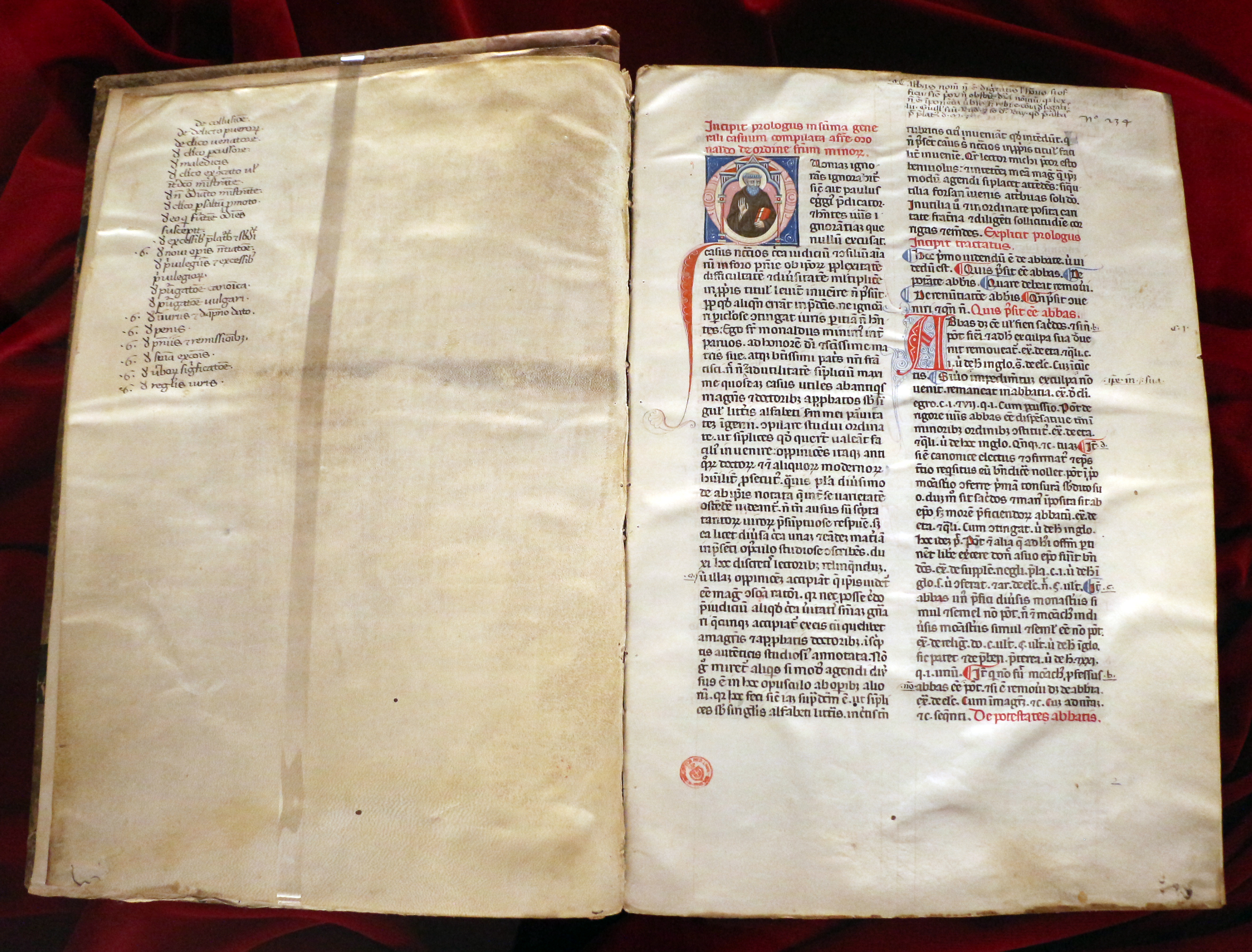 Biblioteca Medicea Laurenziana manuscripts